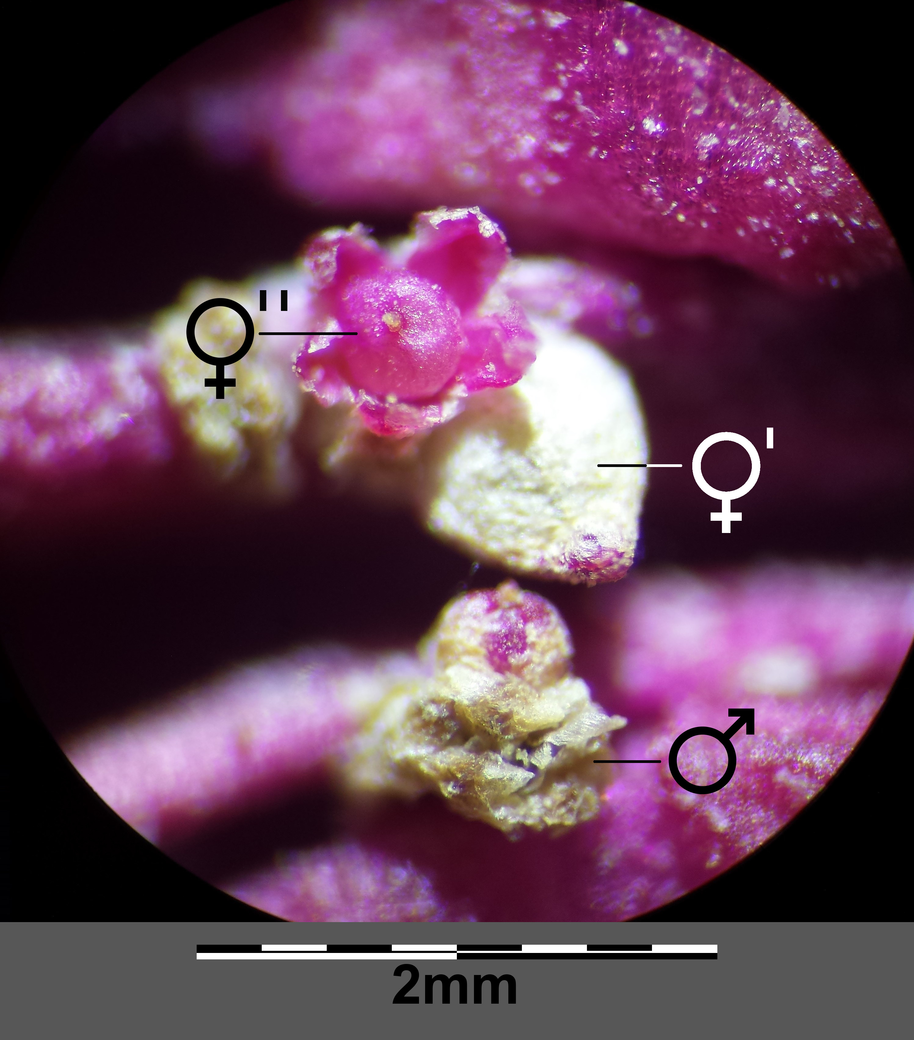 Female flower with two prophylls and no perigone (♀'), female flower with no prophylls and 5 perigone leaves (♀") and male flower (♂) Taxonym: Atriplex hortensis ss Fischer et al. EfÖLS 2008 ISBN 978-3-85474-187-9 Location: Groß-Jedlersdorf cemetery, Vienna-Floridsdorf - ca. 160 m a.s.l. Habitat: idle grave